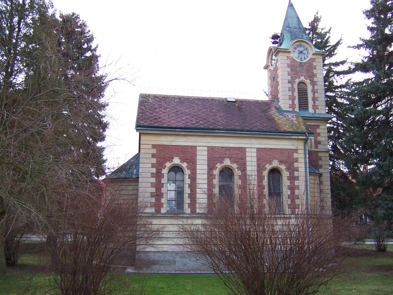 Village chapel in Ostresany, Czech Republic